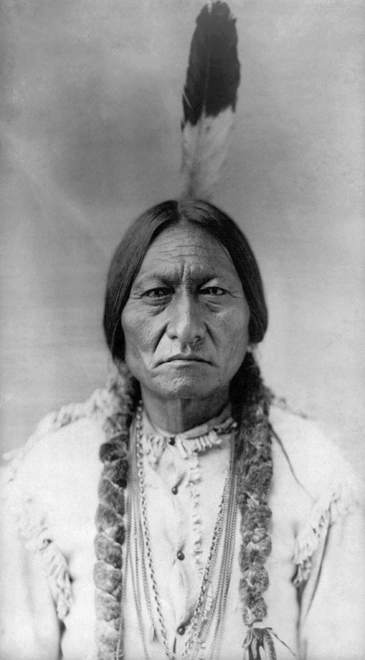 Sitting Bull (c. 1831-1890). Sitting Bull was a Lakota chief and holy man, famous for his 1876 victory over Custer at the Battle of the Little Bighorn. He also participated in Buffalo Bill's Wild West show (Photograph by D. F. Barry, 1885).